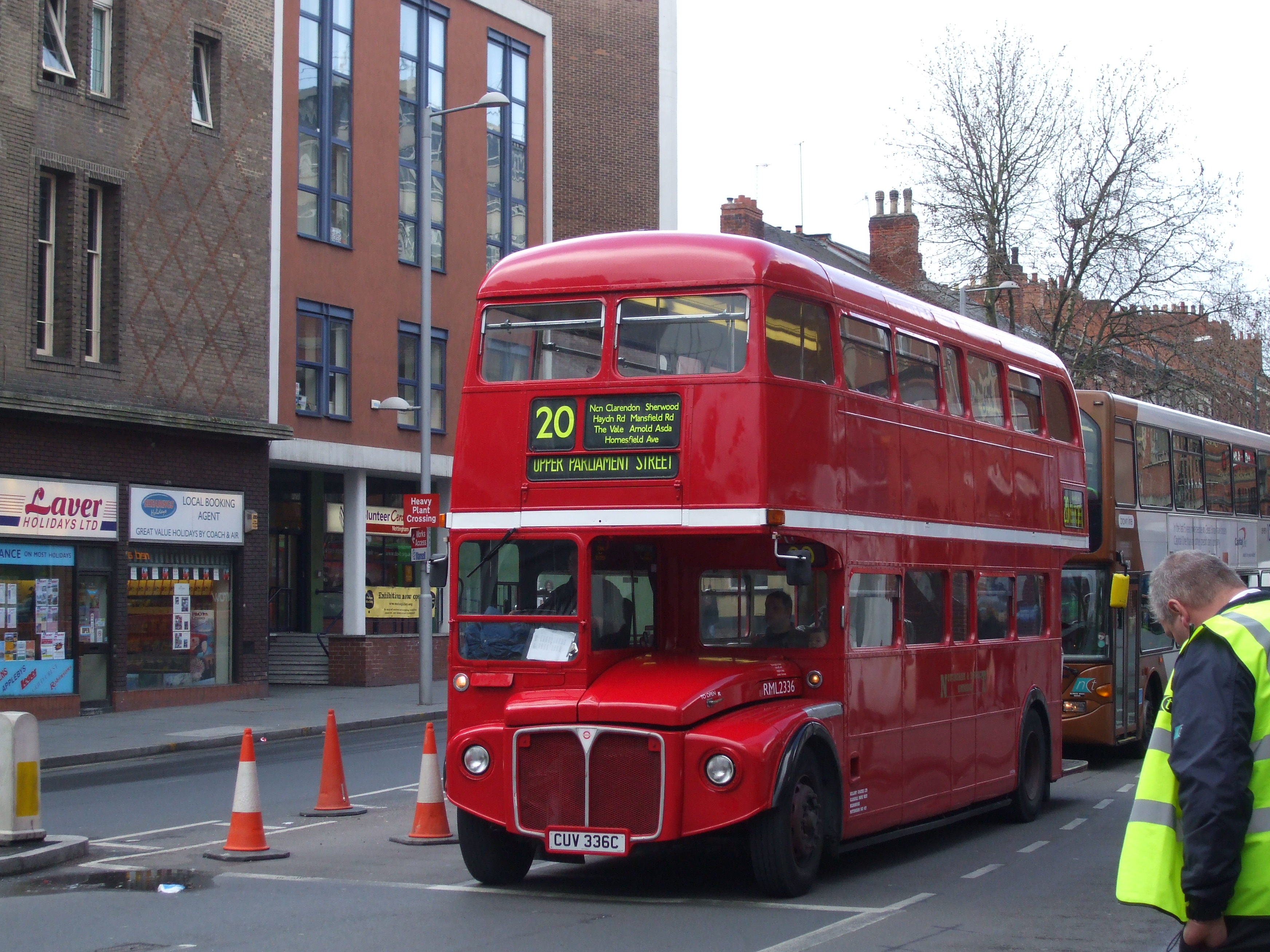 Nottingham & District Omnibus Routemaster bus RML2336 (reg. CUV 336C) operating route 20 in Nottingham town centre, pictured heading south down Mansfield Street about to turn right into Shakespeare Street, to shortly end the journey in Upper Parliament Street. The operation was set up by Bellamy's Coaches to compete with the incumbent operator, Nottingham City Transport (NCT), but had been withdrawn by August. An NCT Scania OmniDekka bus, route branded for the Brown Line, is following up behind. An NCT inspector stands on the right.